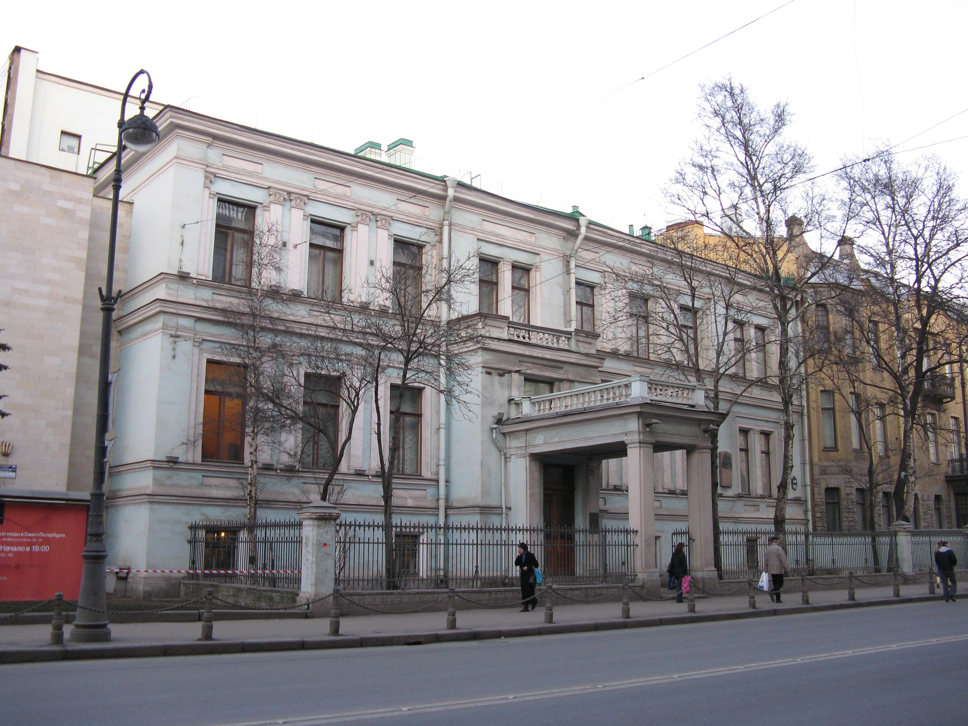 Kamennoostrovskiy, 5, St-Petersburg. Residence of Sergei Witte. Architect - Ernest-Friedrich Franzevich Wirrich (Wurrich) (1860, St. Petersburg - after 1949))